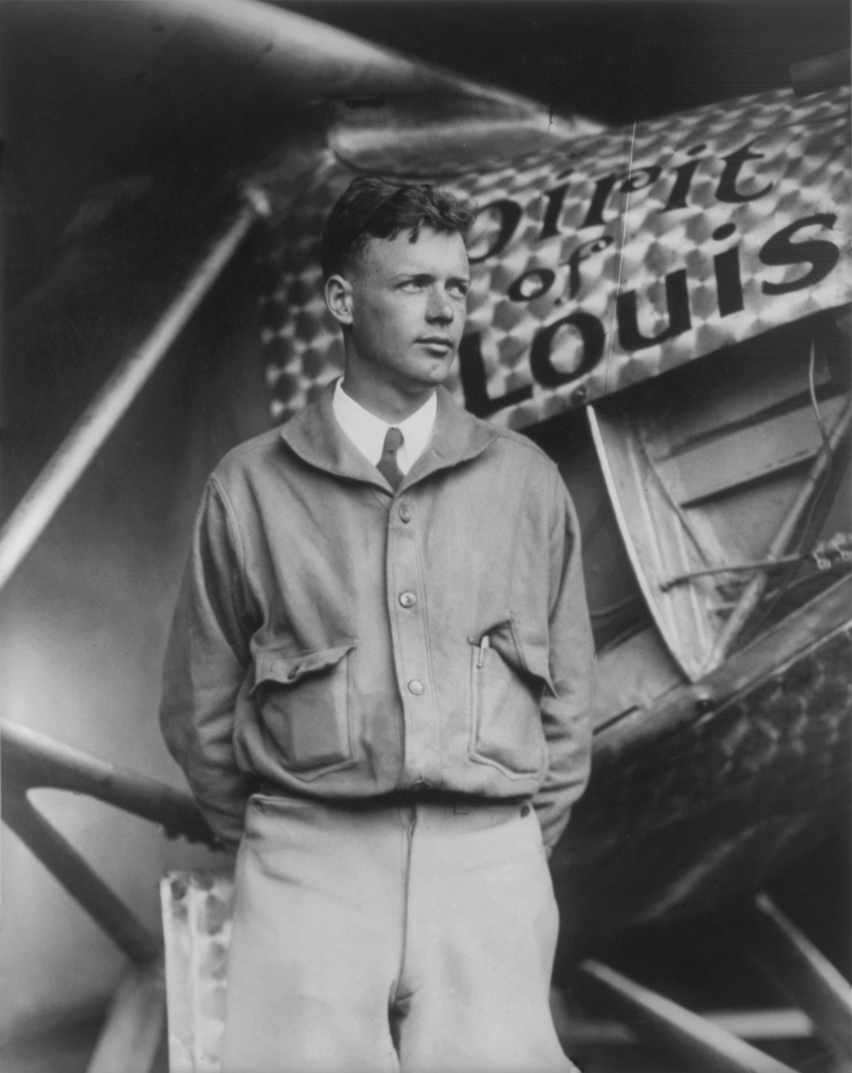 Charles Lindbergh, with Spirit of St. Louis in background. Restored by Crisco 1492 from File:Charles Lindbergh and the Spirit of Saint Louis.tif (removed dust, scratches, including black spots on the wings which may or may not have been there in the original).